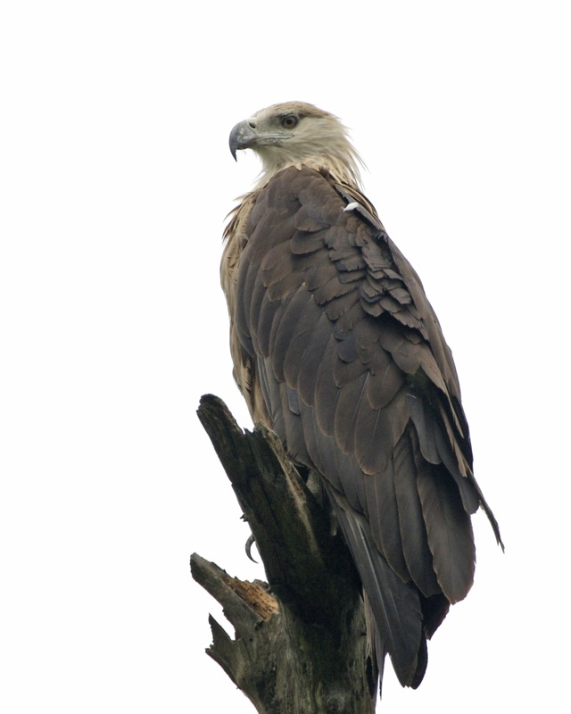 Pallas's Fish Eagle Haliaeetus leucoryphus Kazaringa, Assam, India April 15, 2008 Problem with taking pictures of birds of prey on their perch is the strong backlighting. Making an allowance of 2 stops brings the bird out but the background is rather drab. This is a case of making the best of a poor situation. Lens: 500mm with 2X adaptor